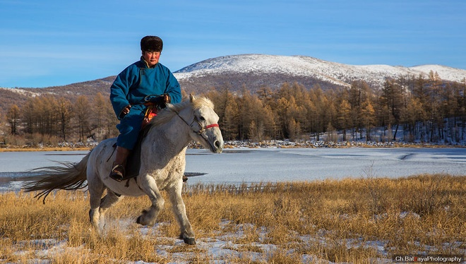 Nhiếp ảnh gia Batzaya vừa chia sẻ bộ ảnh ấn tượng sau chuyến cưỡi ngựa đến vùng Naiman Nuur (Bát Hồ) ở trung tâm Mông Cổ. Đây là khu vực nằm trong dãy núi Khangai hoang sơ và được biết đến là một trong những nơi có phong cảnh đẹp như tranh vẽ, bất kể mùa nào.